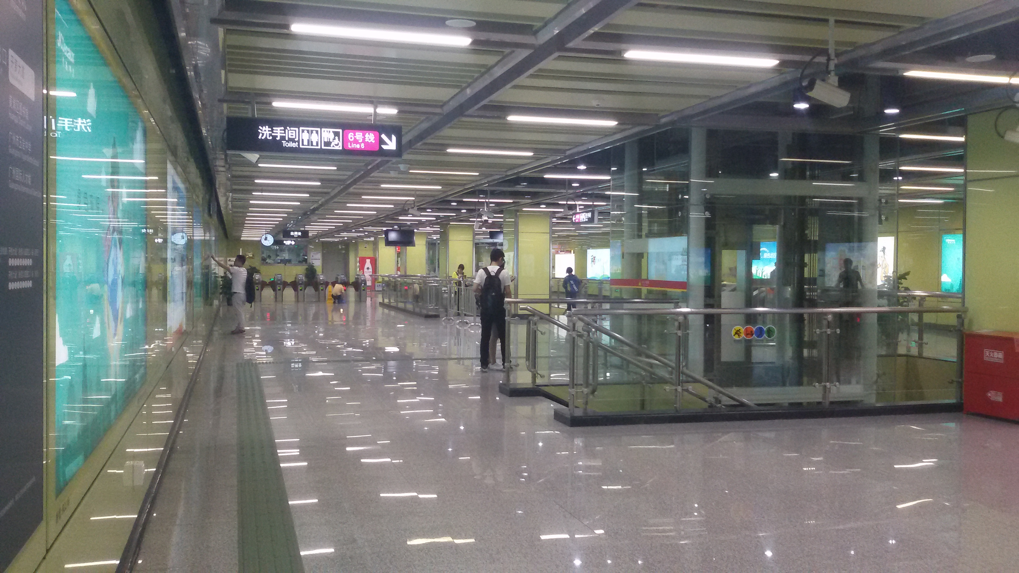 粵語: 廣州地鐵，香雪站嘅站廳。